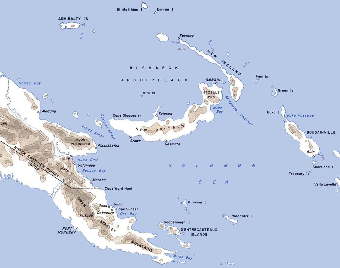 Map of eastern New Guinea, New Britain, New Island and neighbouring islands with locations of importance in World War II marked